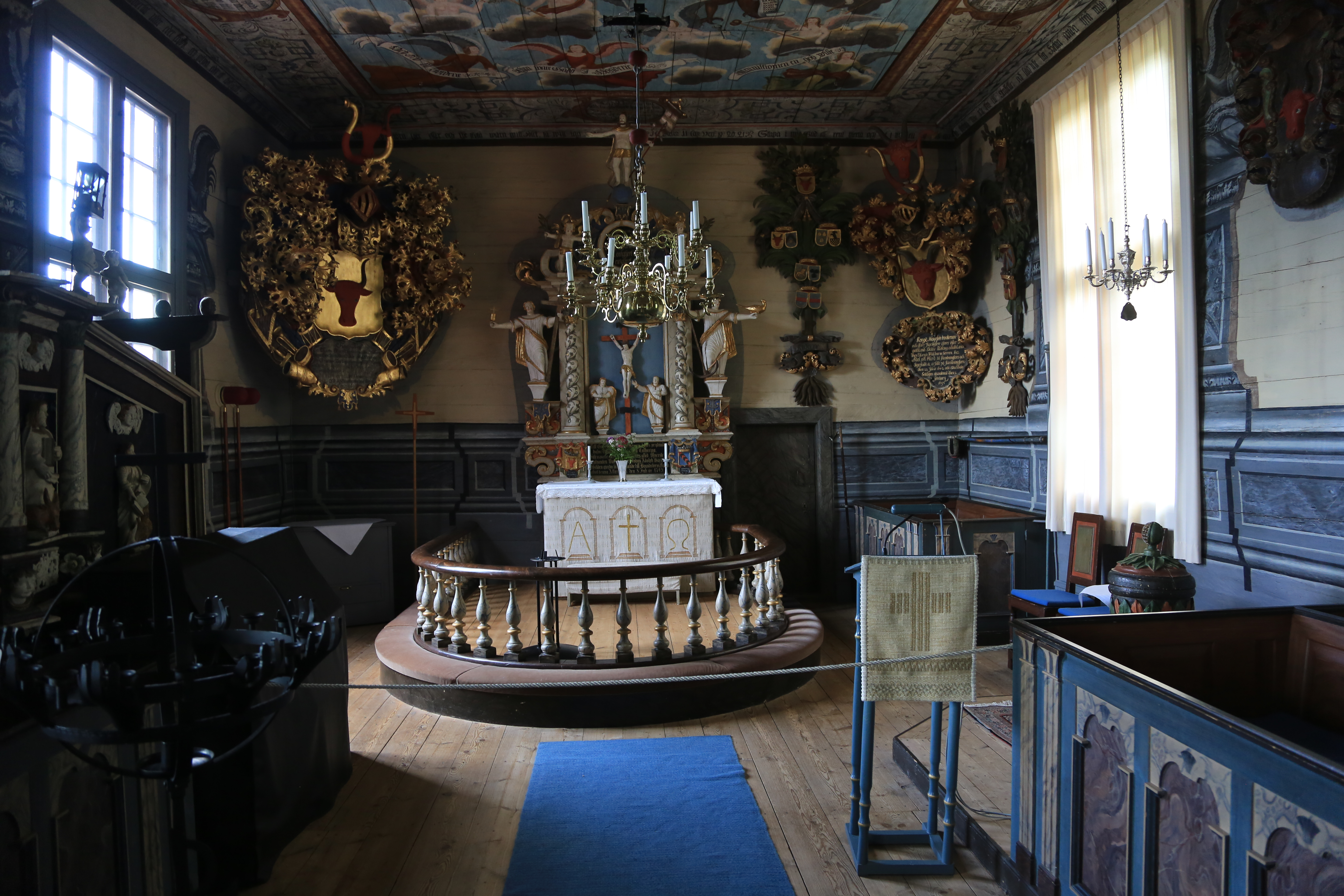 Choir of Brandstorps church.